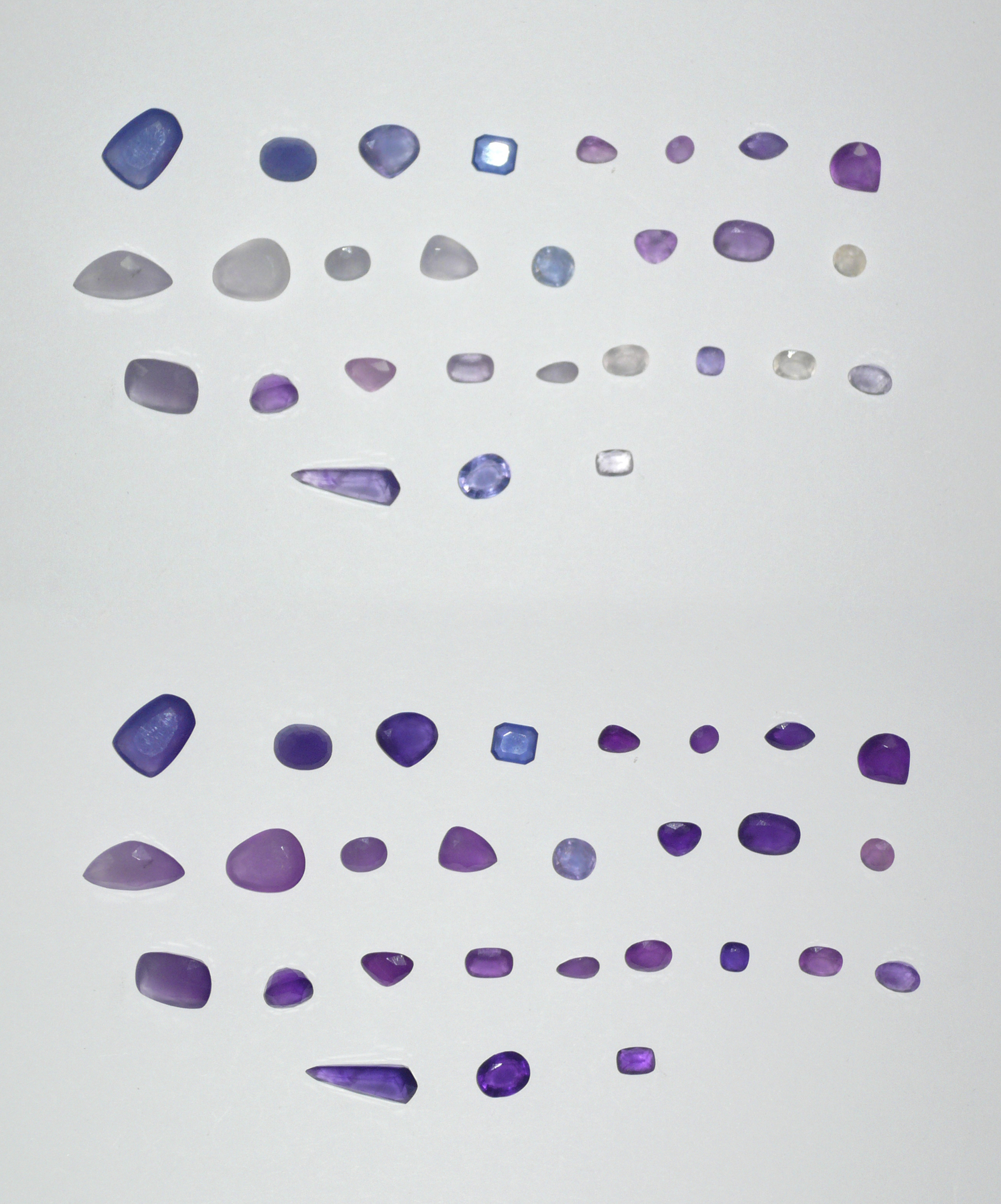 Hackmanite - A variety of Sodalite with tenebrescent effect. Before (top) and after (bottom) exposure to UV. Author: John Ho FGA